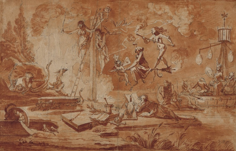 Scene of Sorcery by Claude Gillot, pen and black and dark gray ink, brush and red washes on cream laid paper, 8¼ x 12 15/16 in. (20.96 cm x 32.86 cm), Crocker Art Museum